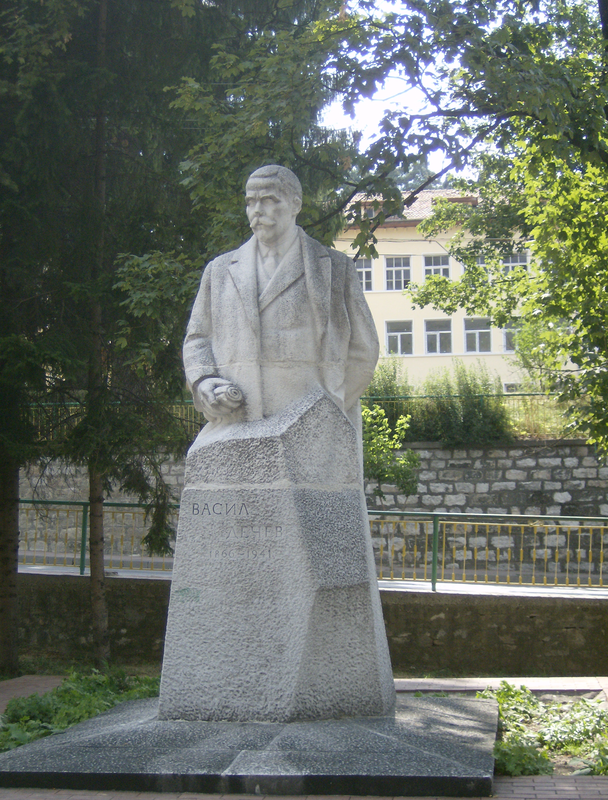 Vasil Dechev Monument, Chepelare